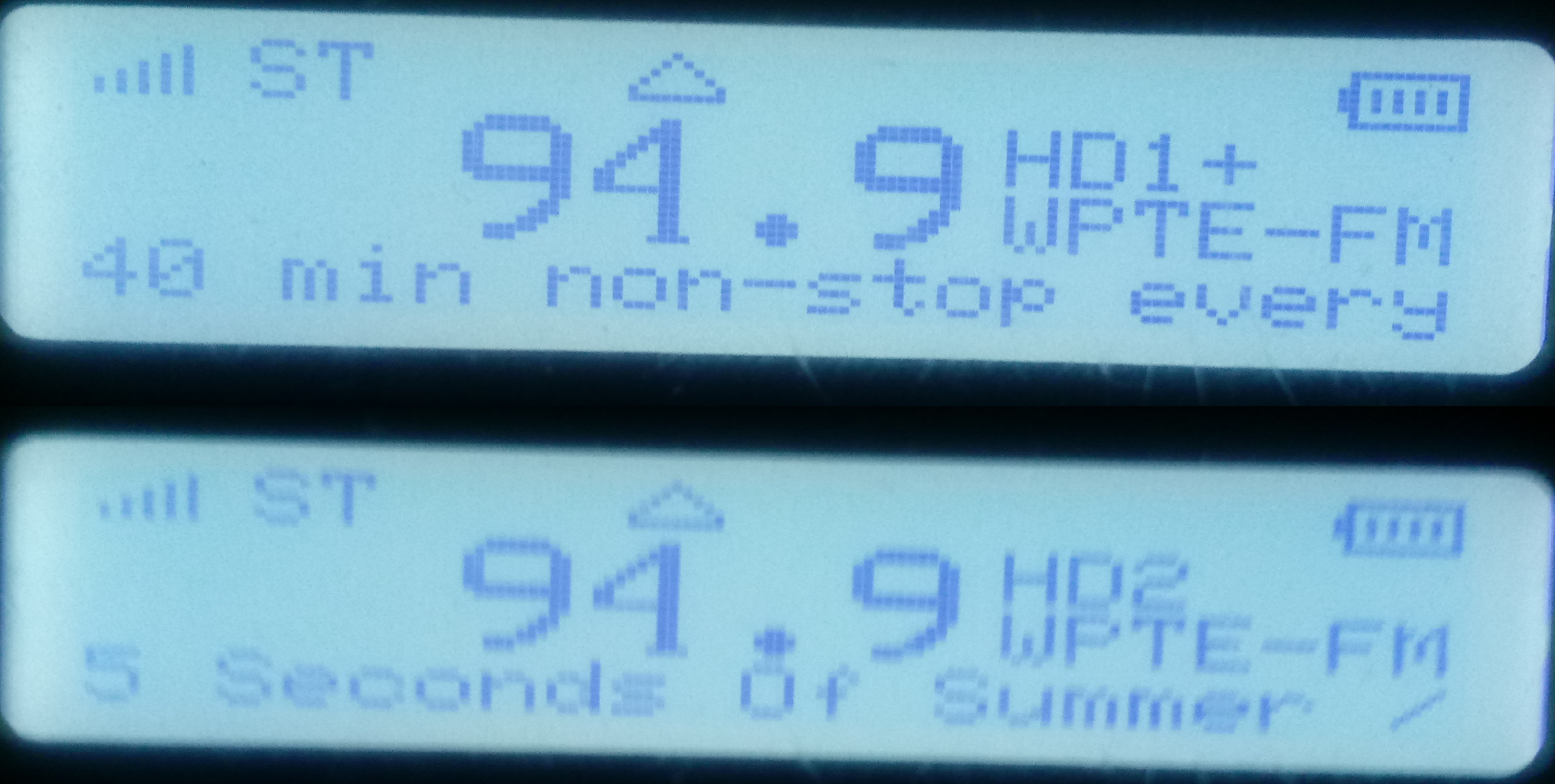 WPTE HD radio station ID displays on a SPARC HD Radio